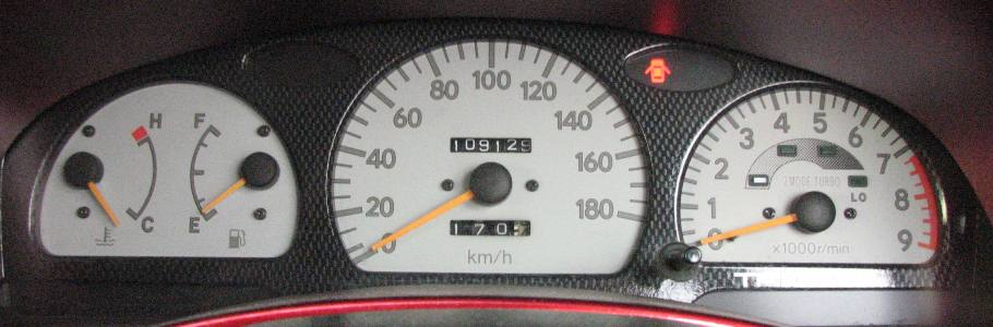 Speed(center) and tacho(right) meters.